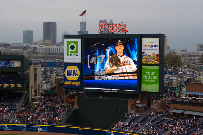 Description Tom Glavine returns to Atlanta in the Braves home opener against the Pittsburgh Pirates on March 31, 2008. DateMarch 31, 2008SourceOwn workAuthorElb2000 (talk) 06:53, 2 April 2008 . . Elb2000 . . 800×533 (124 KB) Tom Glavine returns to Atlanta in the Braves home opener against the Pittsburgh Pirates on March 31, 2008.